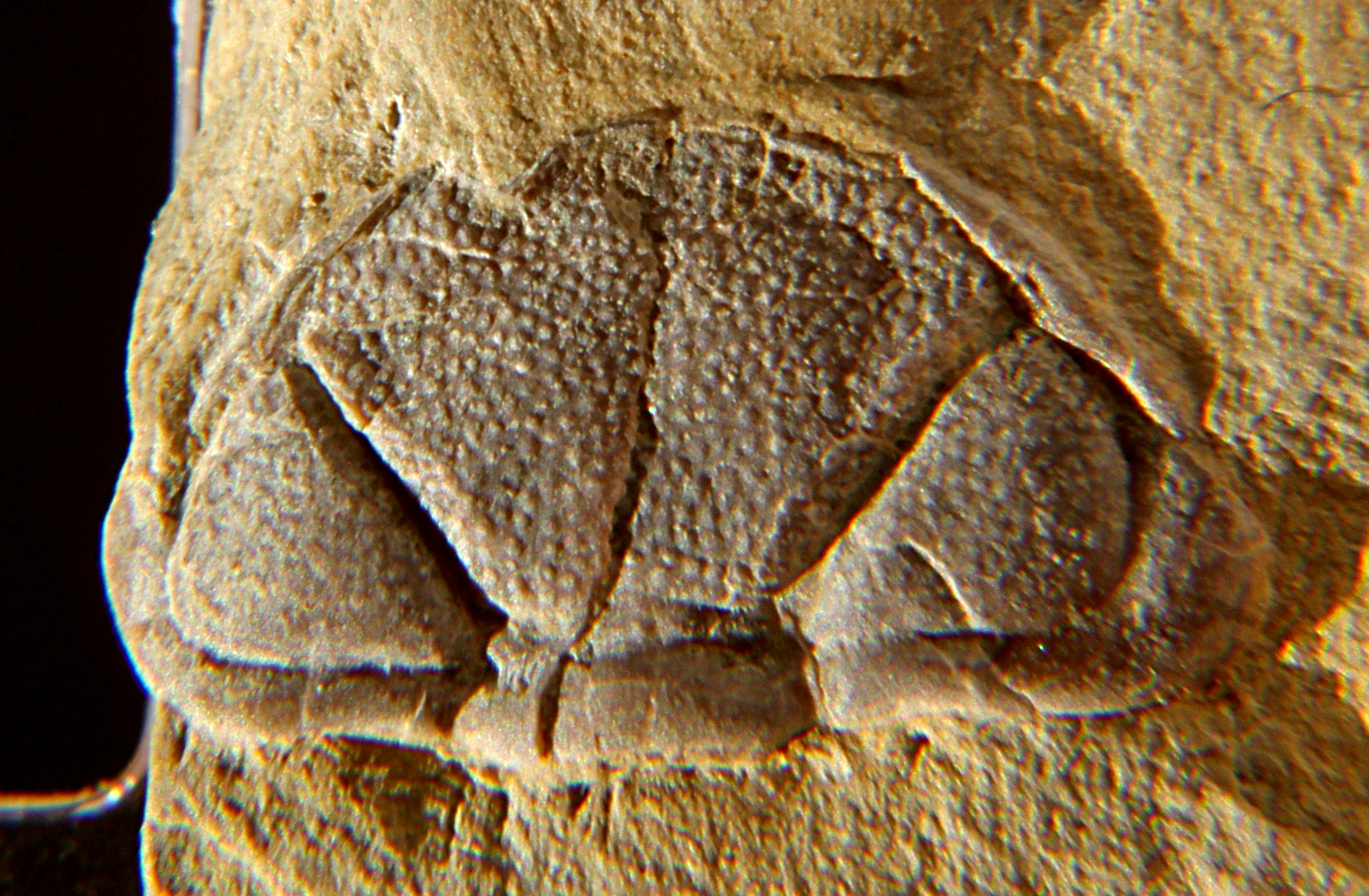 A cephalon of the trilobite Trimerocephalus interruptus, order Phacopida, family Phacopidae, 8mm along midline, collected near Kielce, Poland, from the late Upper Devonian (Famennian).